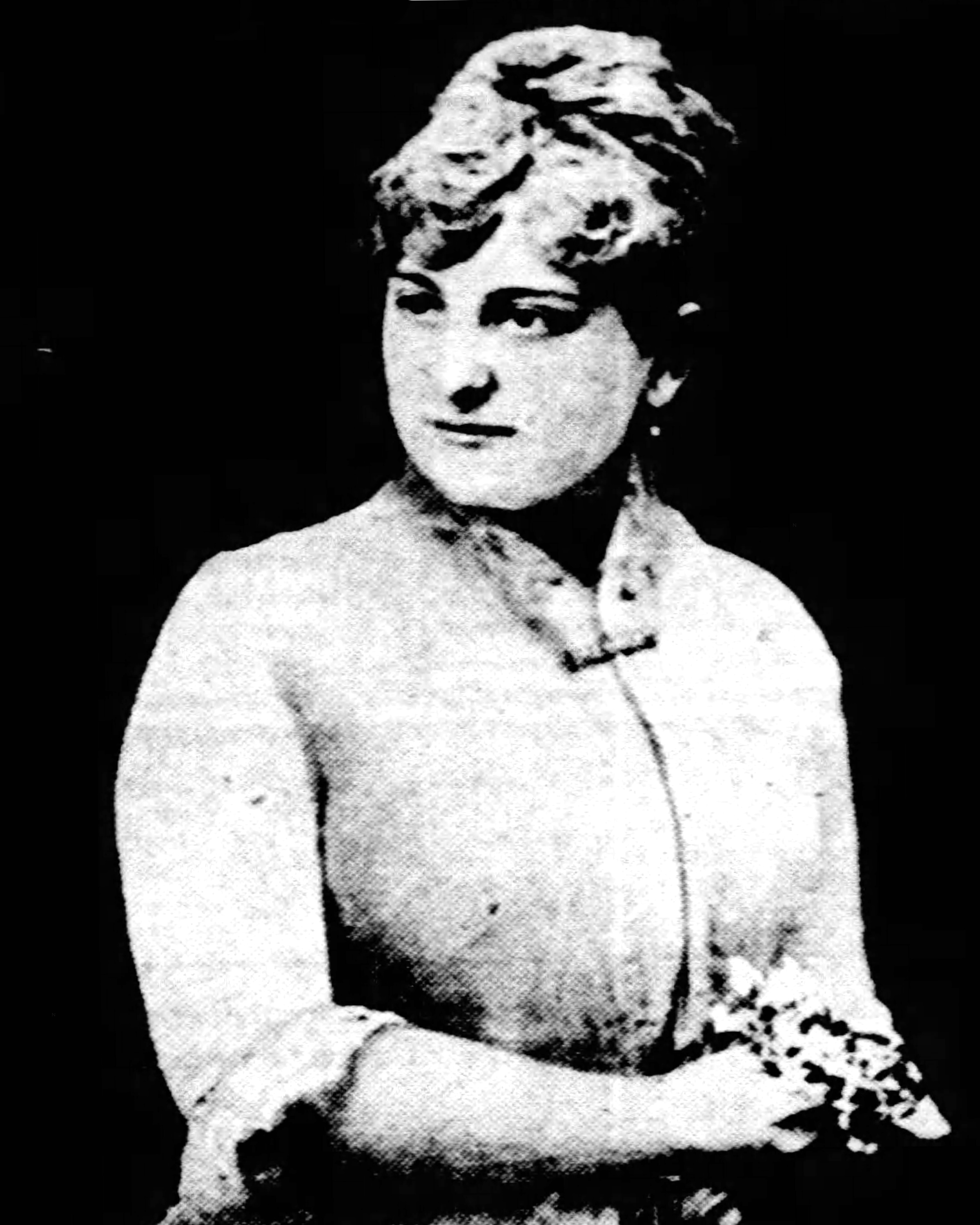 Susie Slayback, Veiled Prophet Queen, St. Louis, 1878. Later known as Mrs. Wellington Adams. She died as the result of a fall on September 16, 1935, in her Washington, D.C., home.